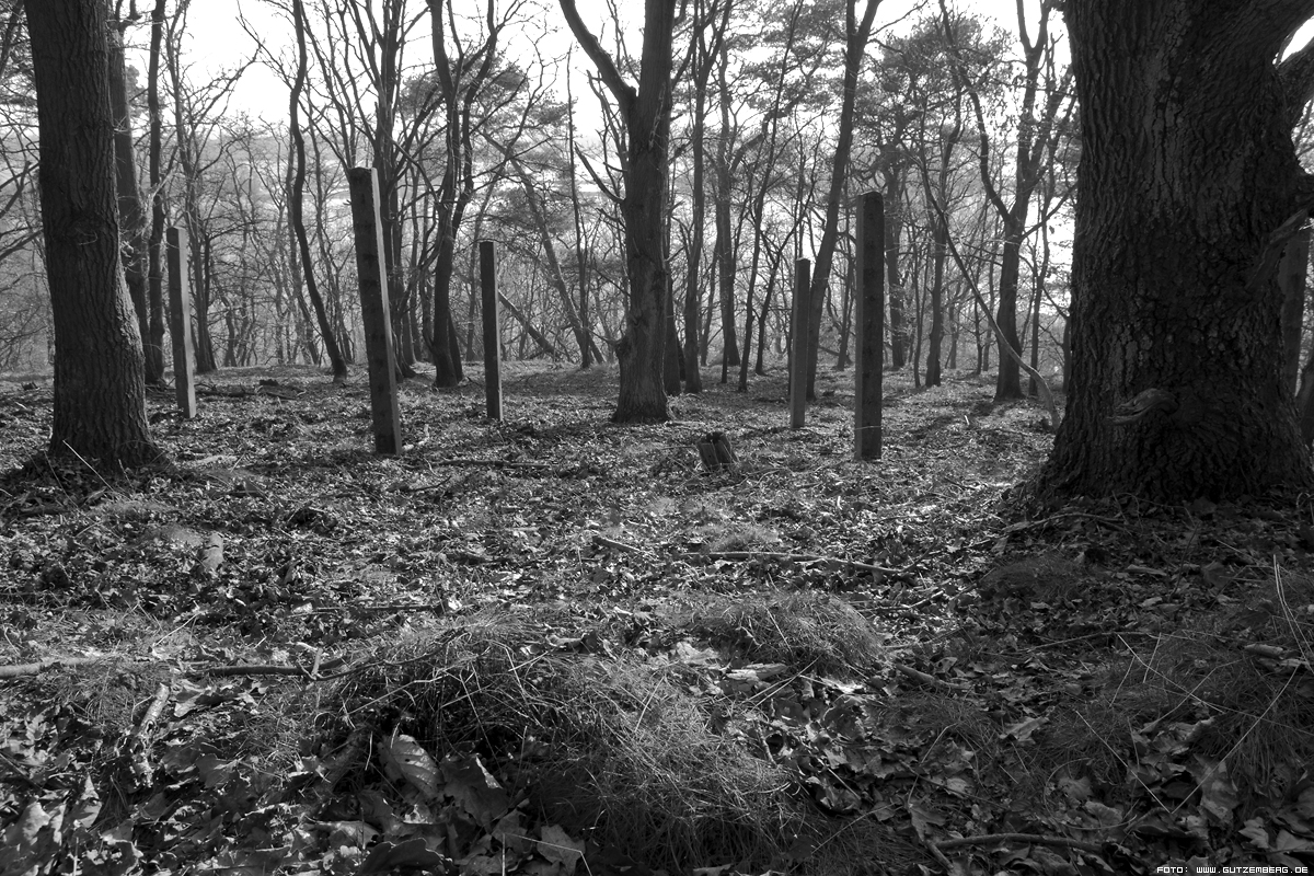 parts of the East Germany border in "Vierwald" near Boizenburg/Elbe